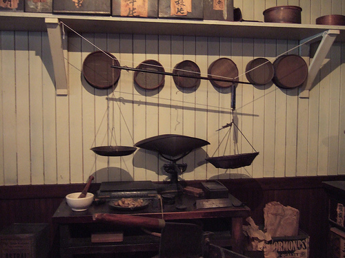 Traditional Chinese instrument scale